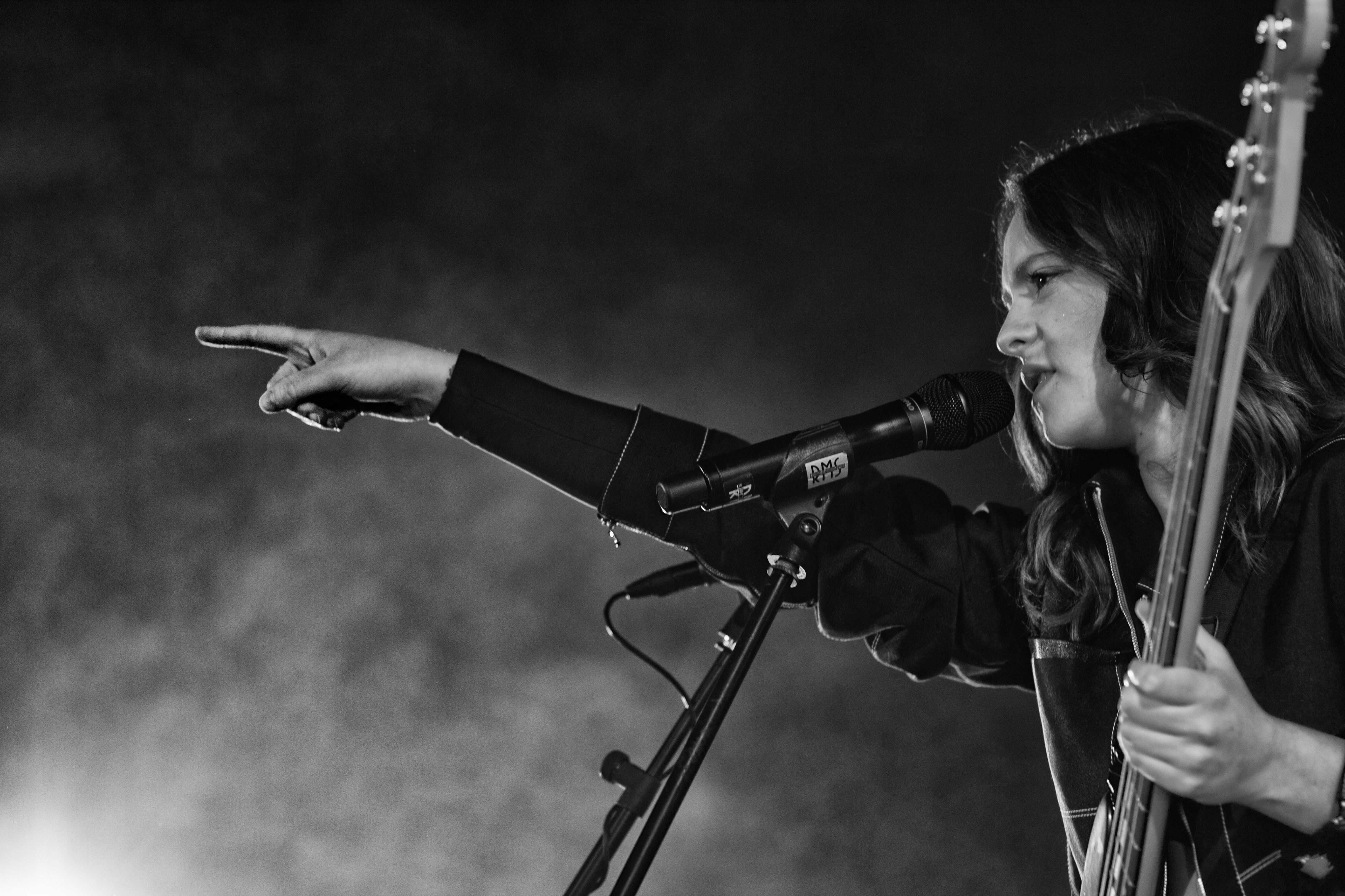 Francesca Michielin performing a the Teatro Quirinetta on 12 April 2018